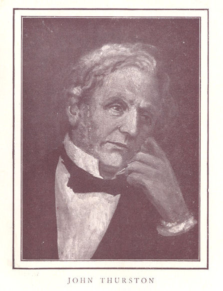 Portrait of older John Thurston. (1777–1850)